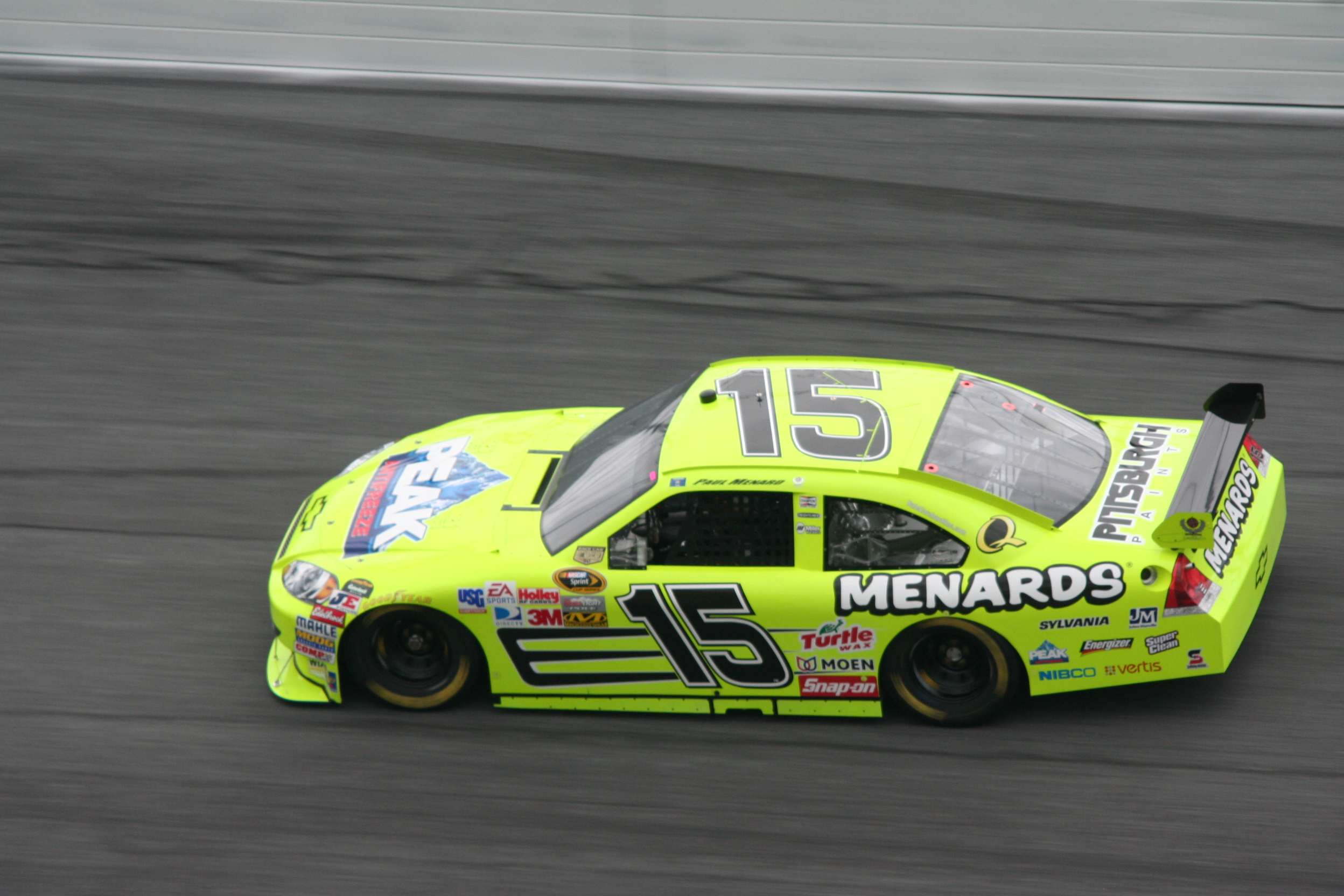 Shot by The Daredevil at Daytona during Speedweeks 2008Paul Menard Menard's/Peak Chevy Impala